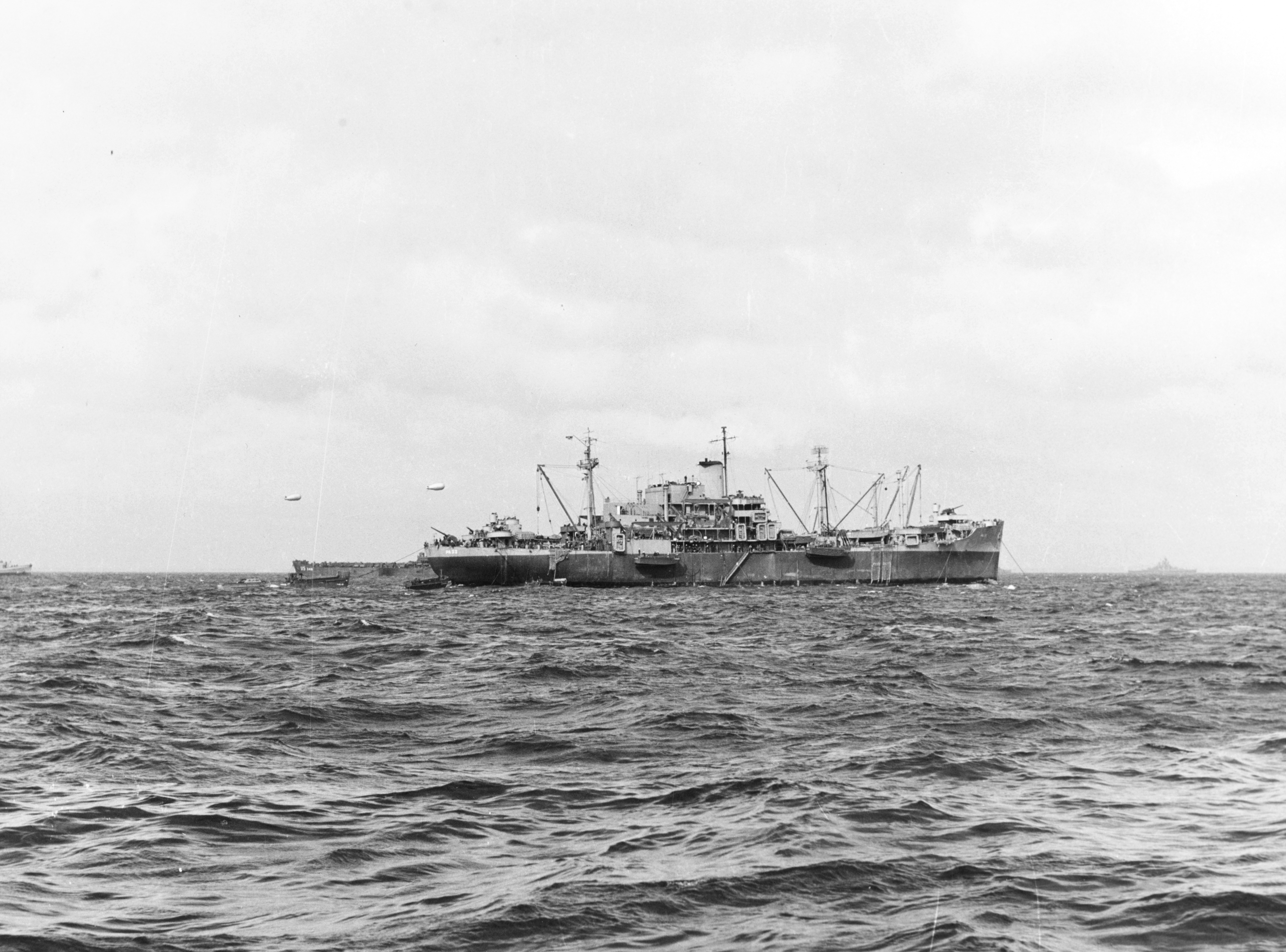 The U.S. Navy attack transport USS Bayfield (APA-33), flagship for the "Utah" Beach landings, lowers LCVPs for the assault, 6 June 1944. The tank landing ship LST-346 is partially visible beyond Bayfield's stern, and the battleship USS Nevada (BB-36) is in the far right distance.